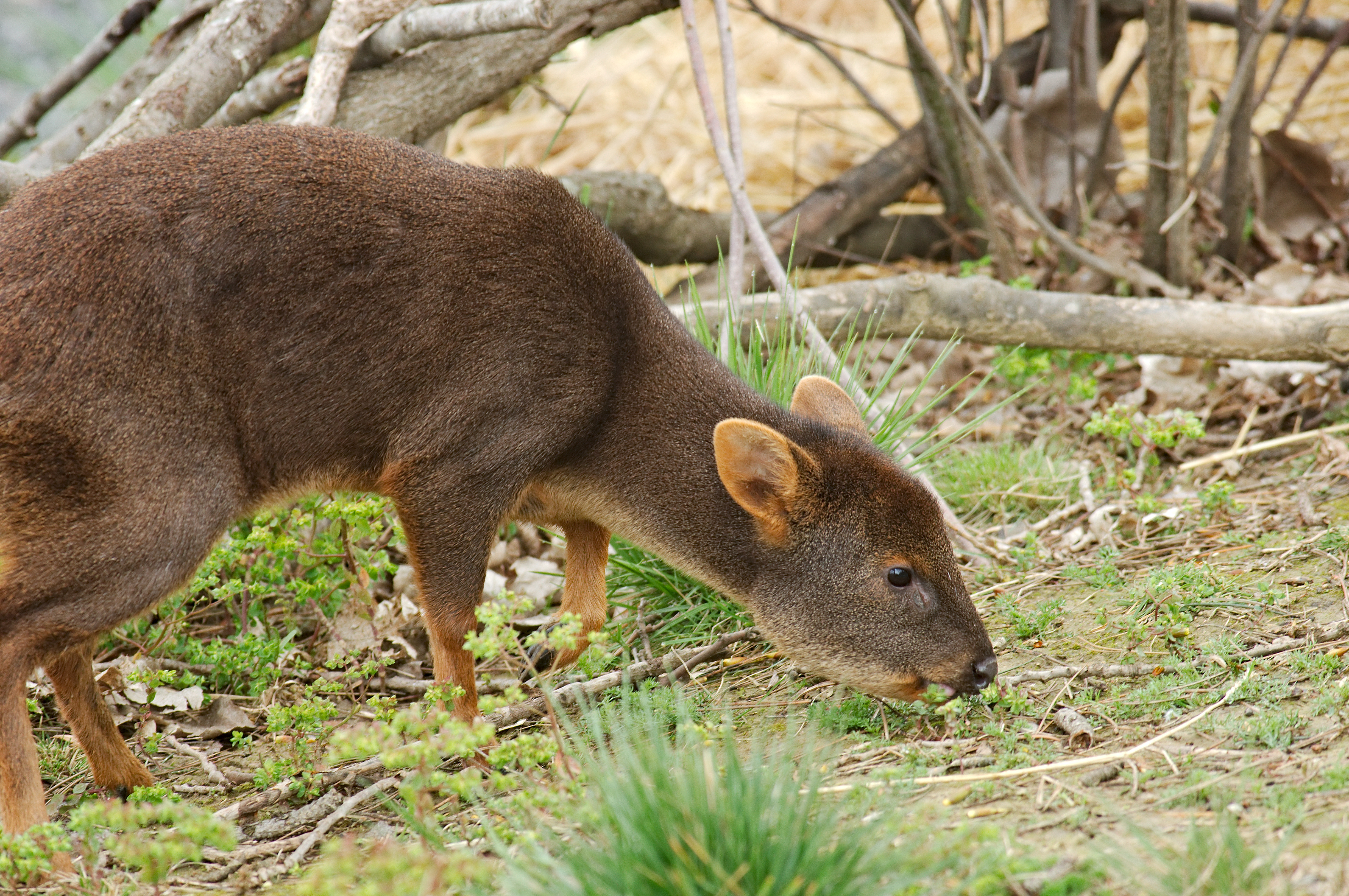 Pudu puda